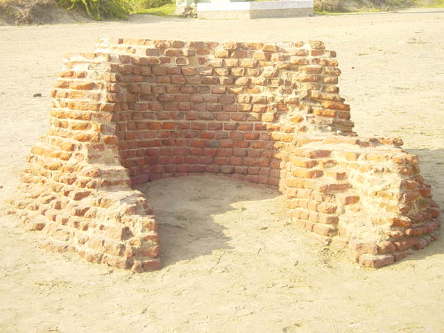 devastated by the tsunami, which remains as a beacon of Chola Albanske (machine translation)